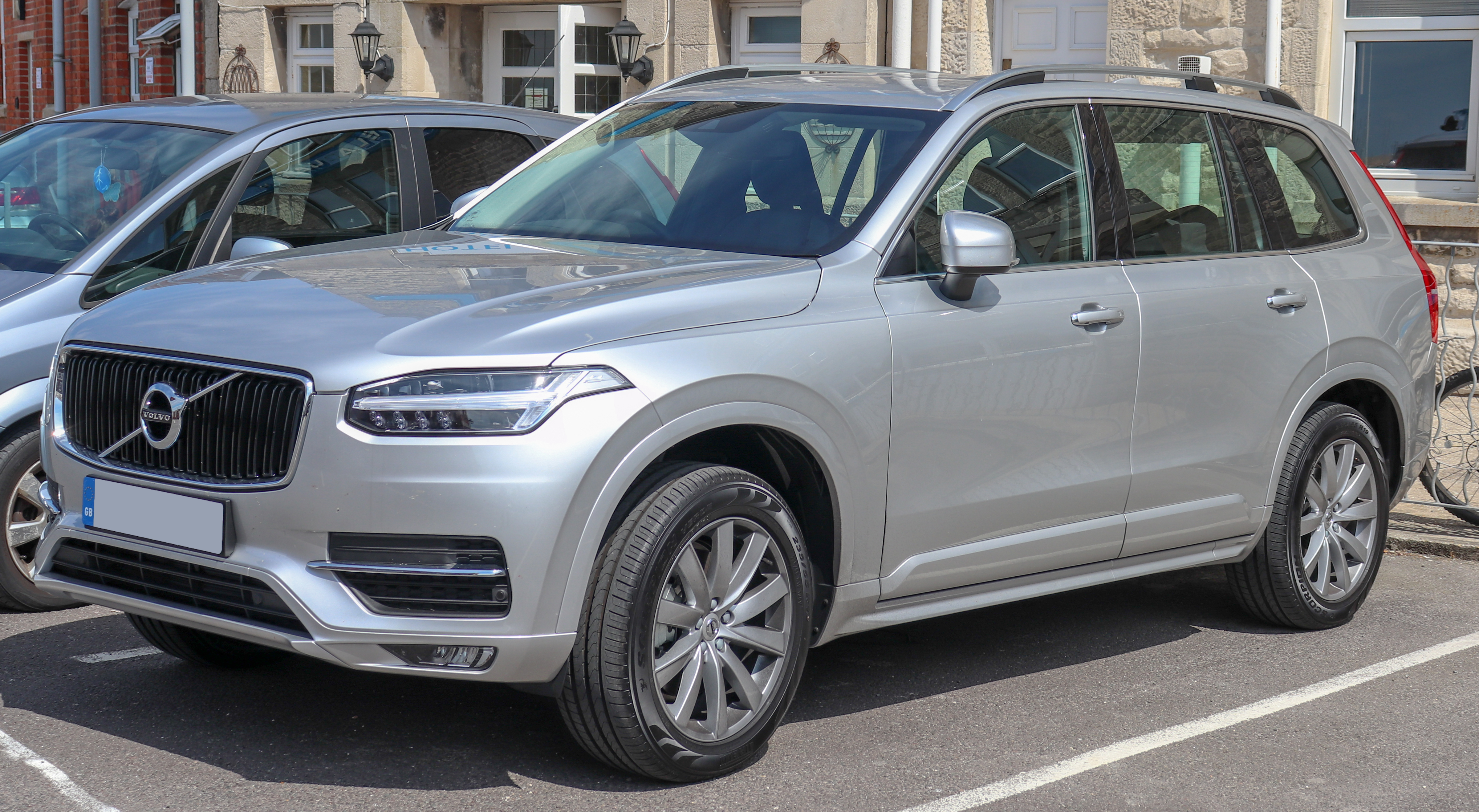 2018 Volvo XC90 2.0 Taken in Castletown, Isle of Portland, Dorset